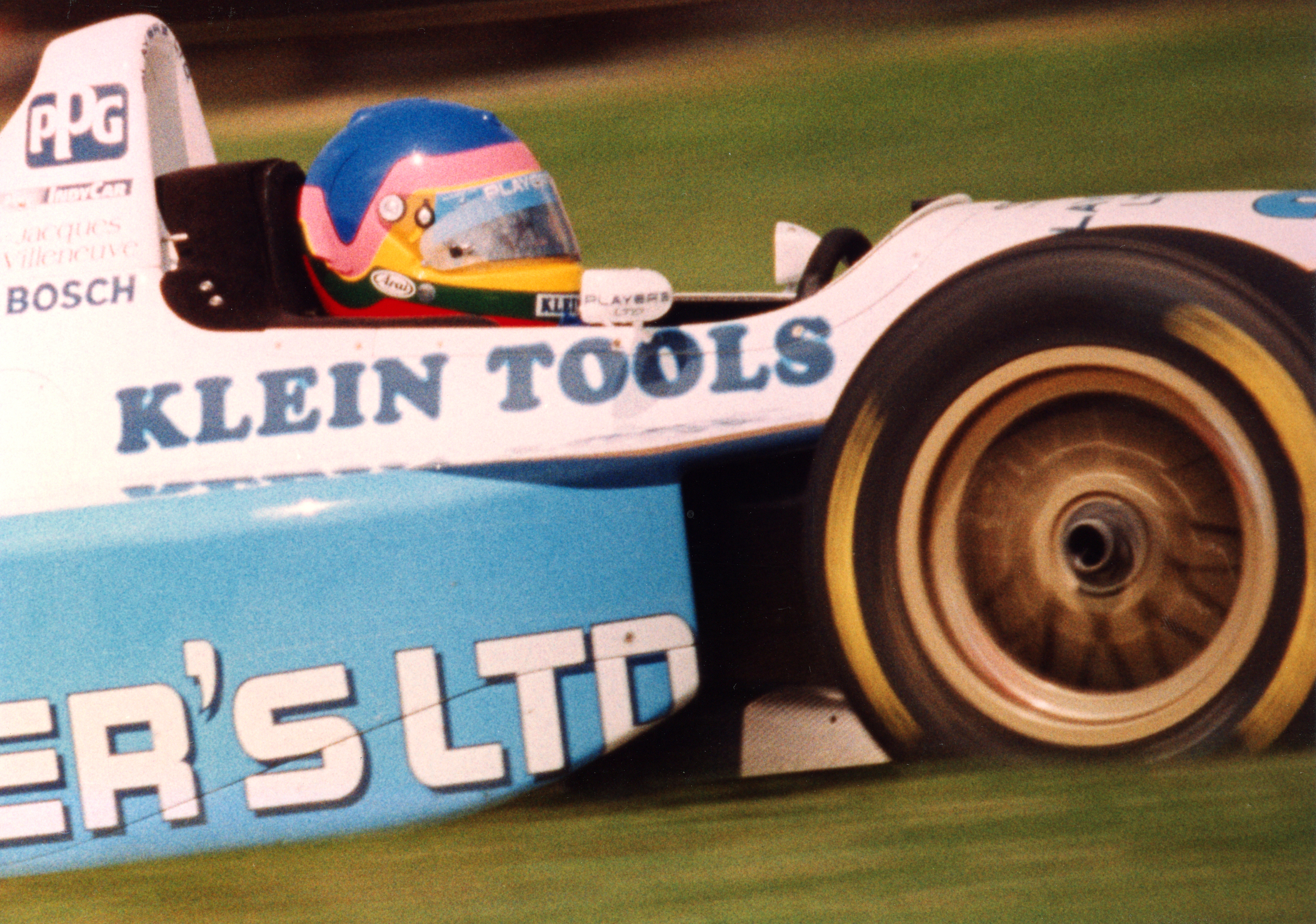 Jacques Villeneuve driving a Reynard/Ford for Team Green in the 1995 PPG IndyCar World Series at Mid-Ohio Sports Car Course in Lexington, Ohio.